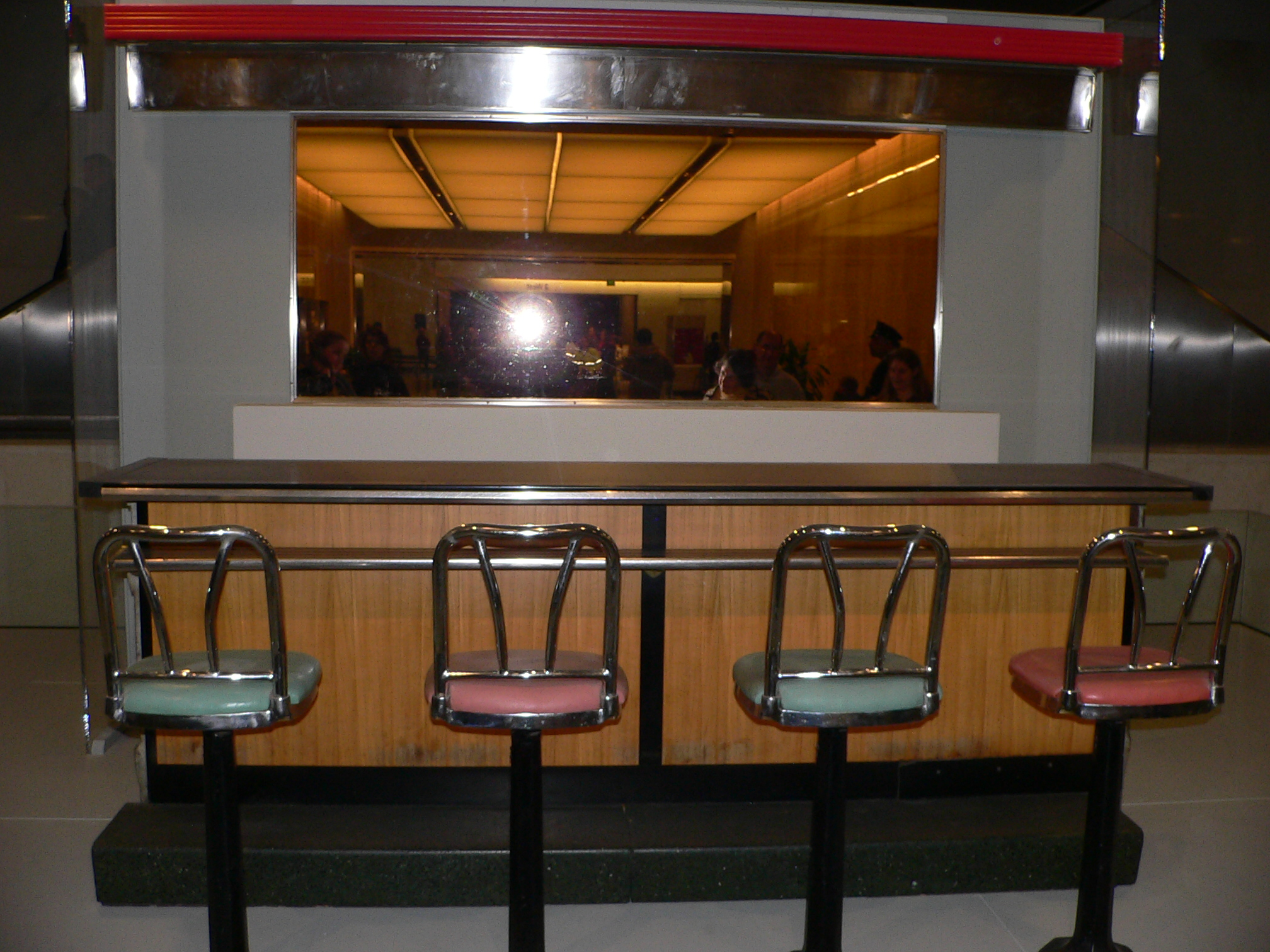 A section of lunch counter from the Greensboro, North Carolina Woolworth's where the Greensboro sit-ins began is now preserved in the Smithsonian Institution National Museum of American History. A section of lunch counter now appears in the display of the Smithsonian Institution National Museum of American History. Counter from the Greensboro sit-ins. “ GREENSBORO LUNCH COUNTER, 1960 From the site of an important civil rights protest Segregation in public places was still legal on February 1, 1960, when four African American college students deliberately sat down at this "whites only" lunch counter at an F. W. Woolworth store in Greensboro. When denied service and asked to leave, they remained in their seats. Over the next six months, hundreds of students and church and community members joined the protest. Their activism ultimately led to the desegregation of the lunch counter on July 25, 1960 "With their very bodies," civil rights leader James Farmer later said of the protestors "they obstructed the wheels of injustice." ”